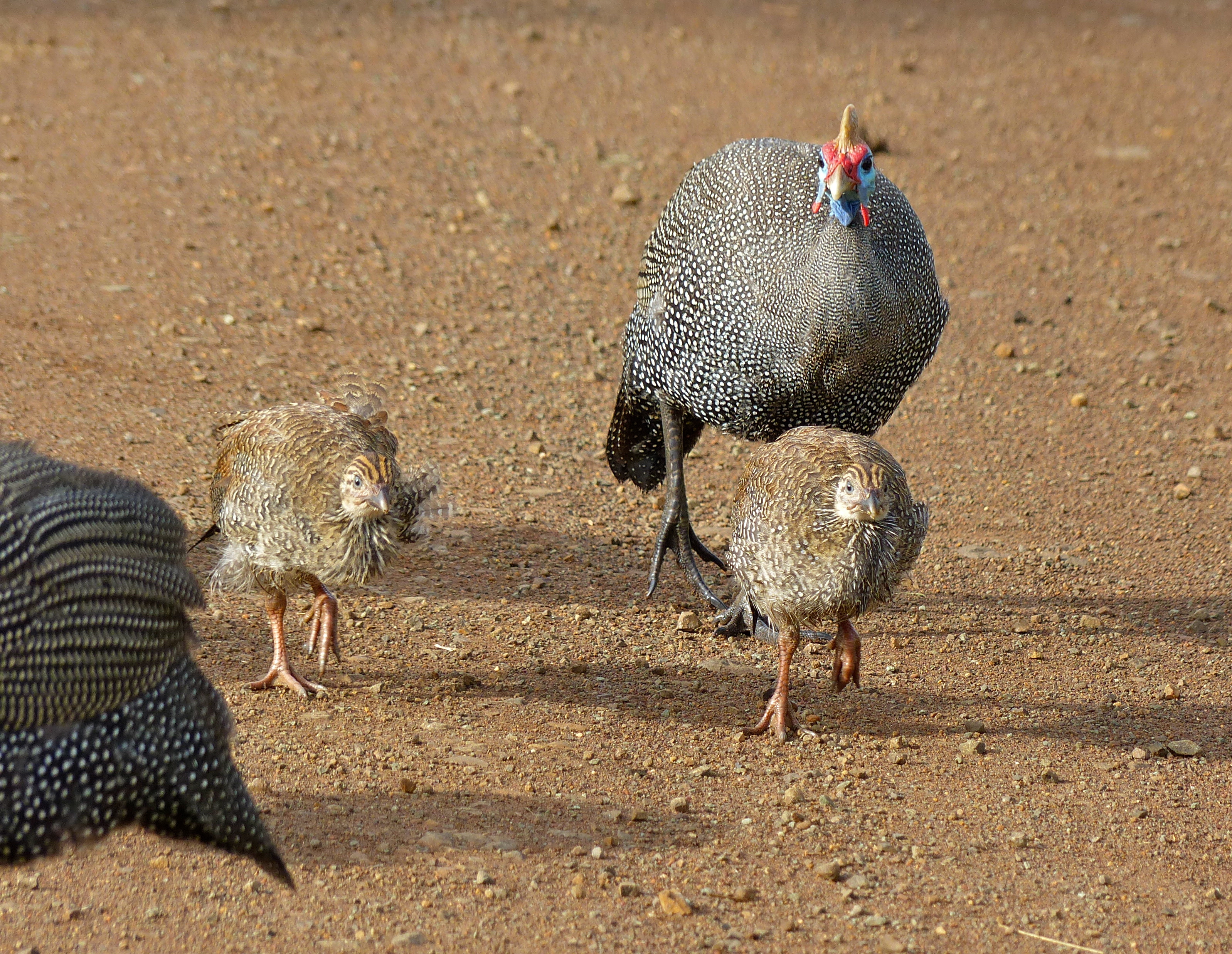 S28 Road South of Lower Sabie, Kruger NP, SOUTH AFRICA